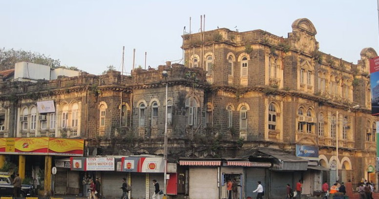 This is a picture of the Capitol Cinema house in Mumbai located opposite the Chhatrapati Shivaji Terminus (CST).